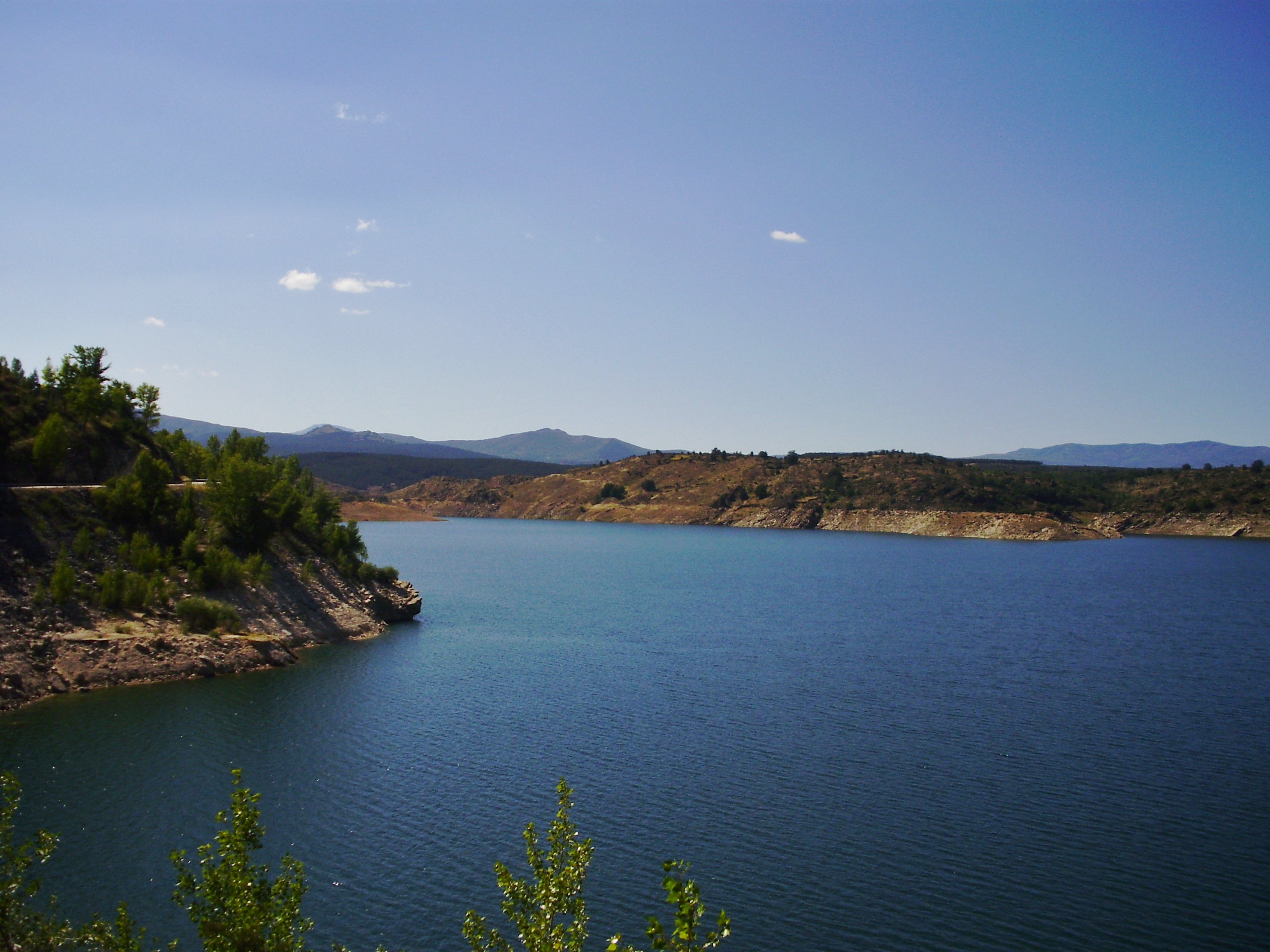 View the Alcorlo Reservoir, Guadalajara, Castile-La Mancha, Spain.